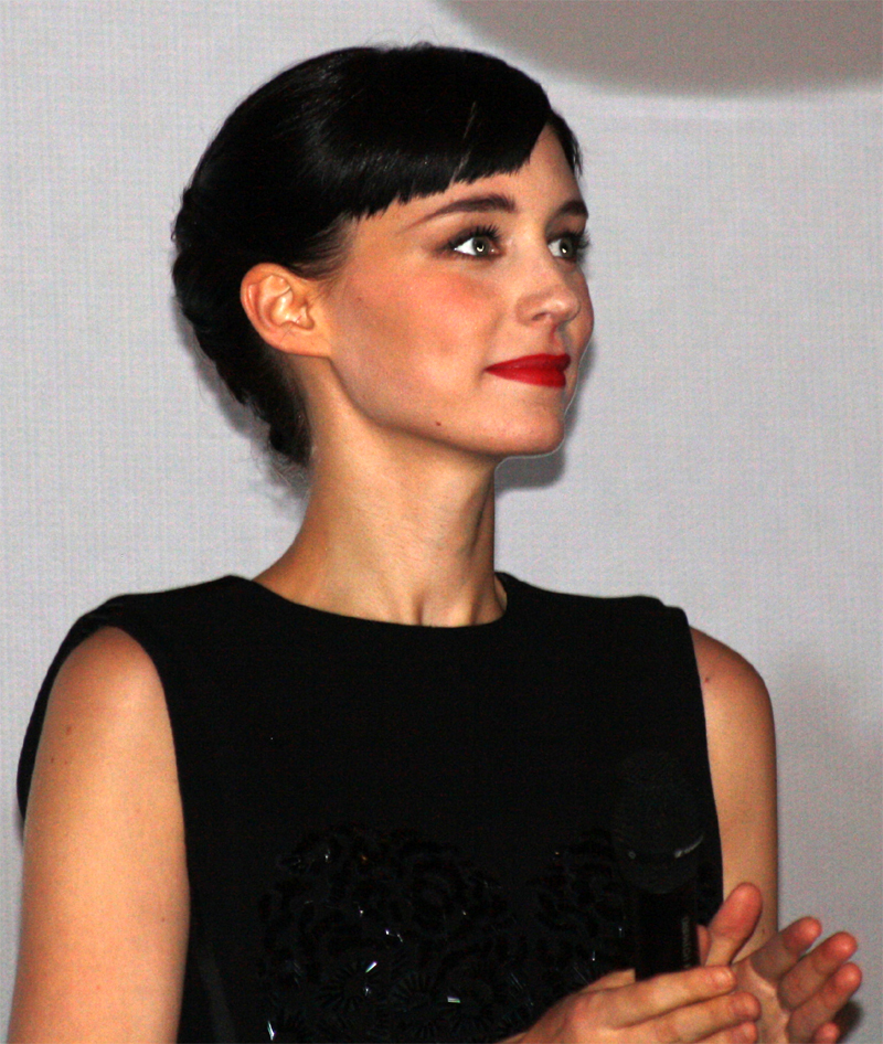 Rooney Mara at the Paris premiere of her film The Girl with the Dragon Tattoo